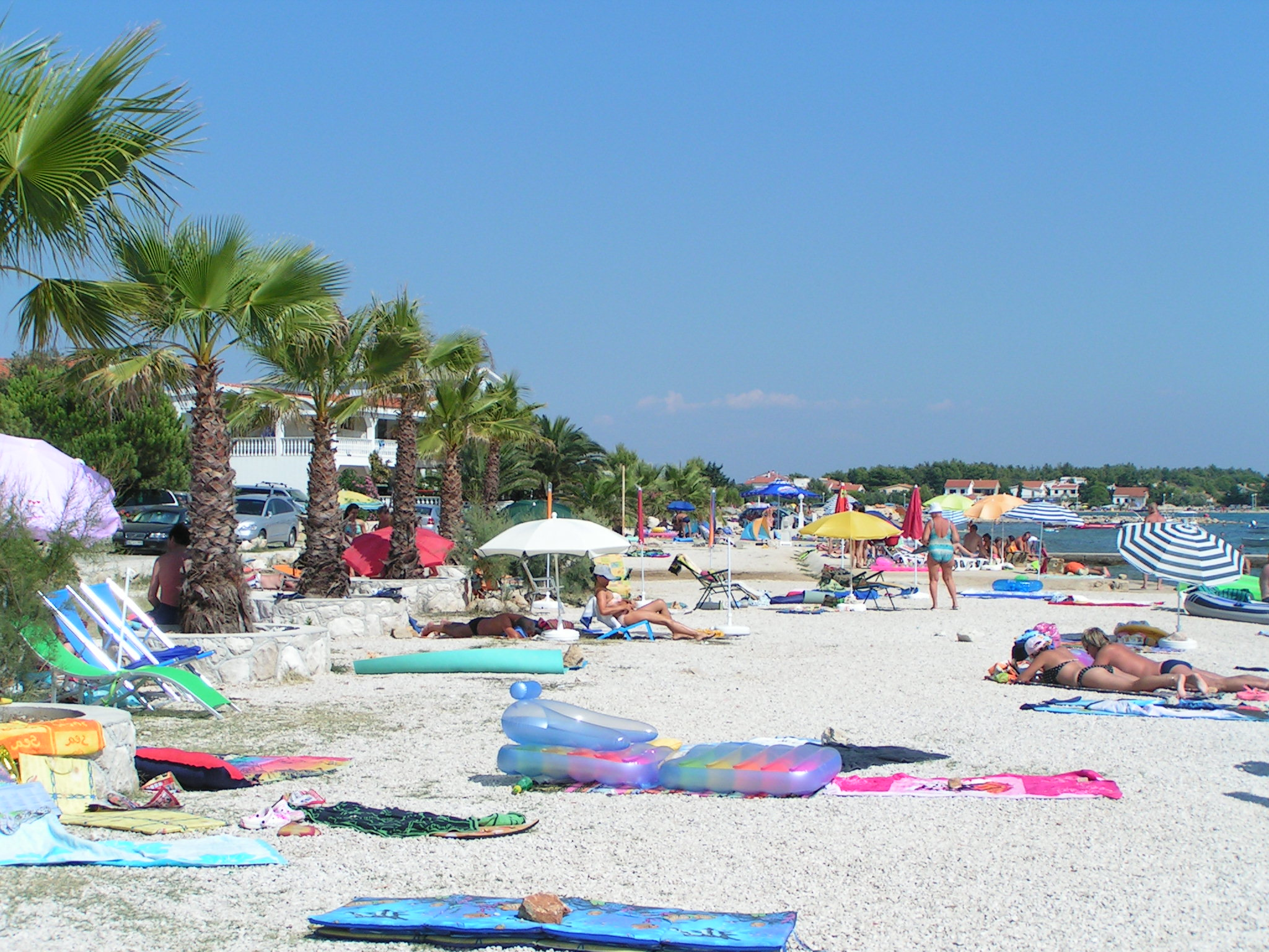 Beach on Vir, Croatia.